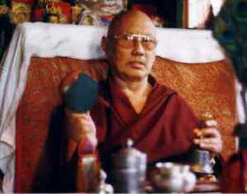 Luding Khen, Monk of Ngor